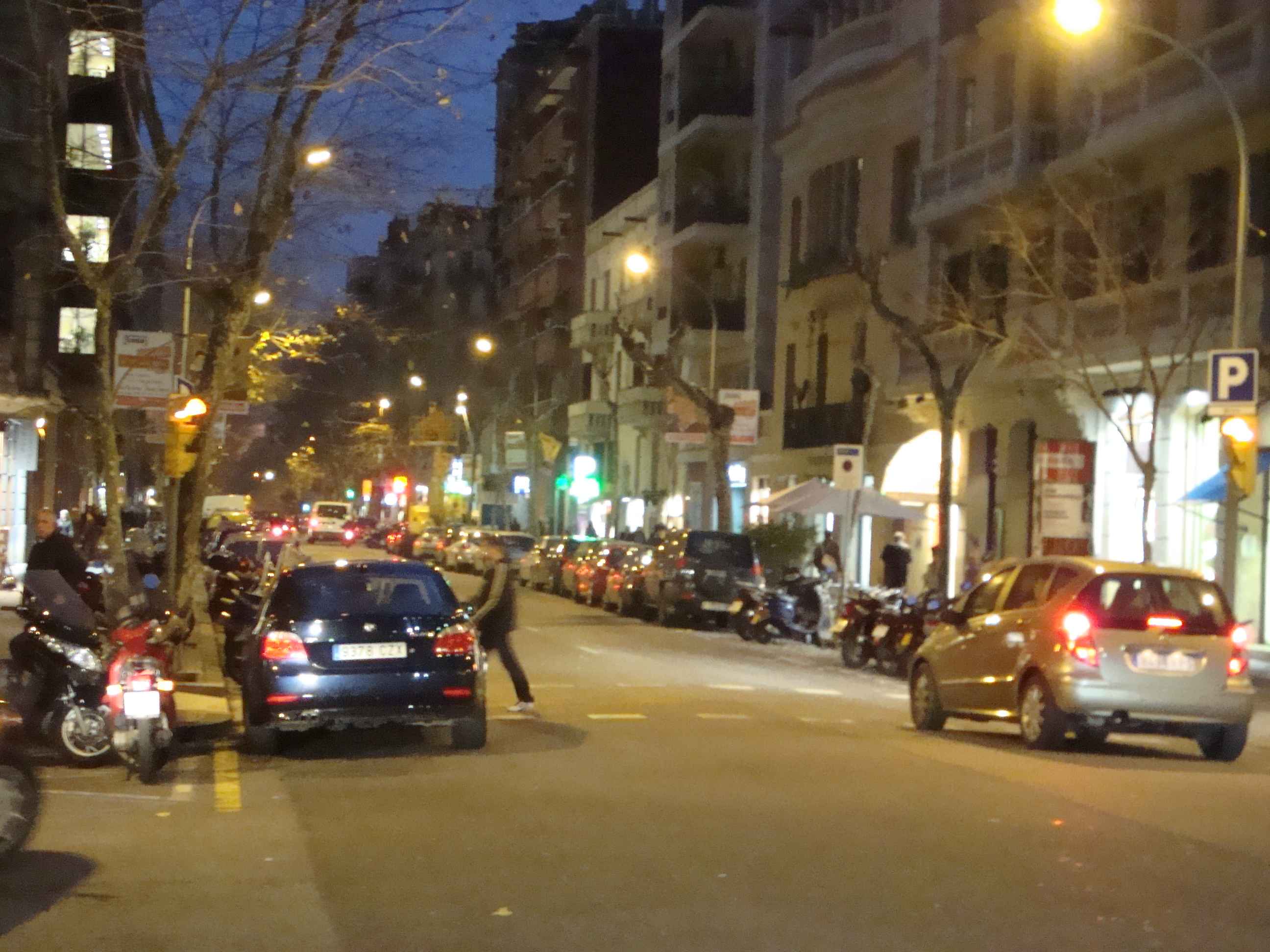 Provença street (Barcelona) seen from the crossroads with Rambla Catalunya.